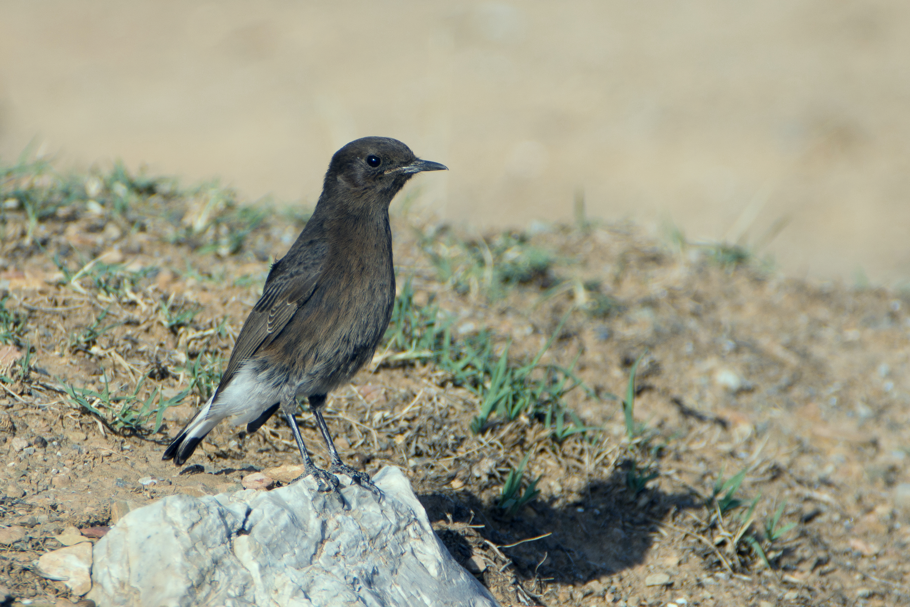 Black Wheatear, Ichkeul national park